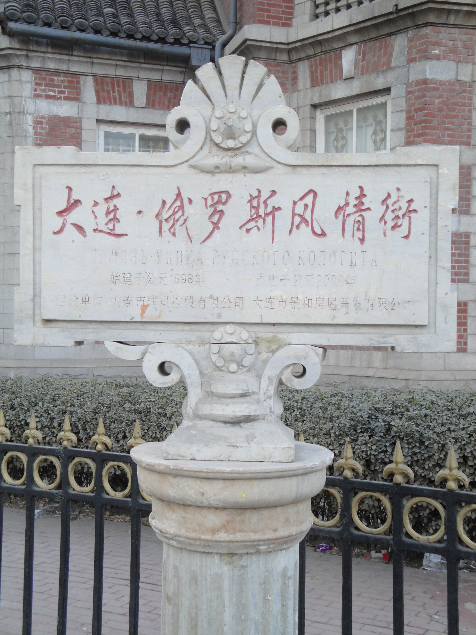 Sign at Russian Culture Street, Dalian. Russian text faintly visible.